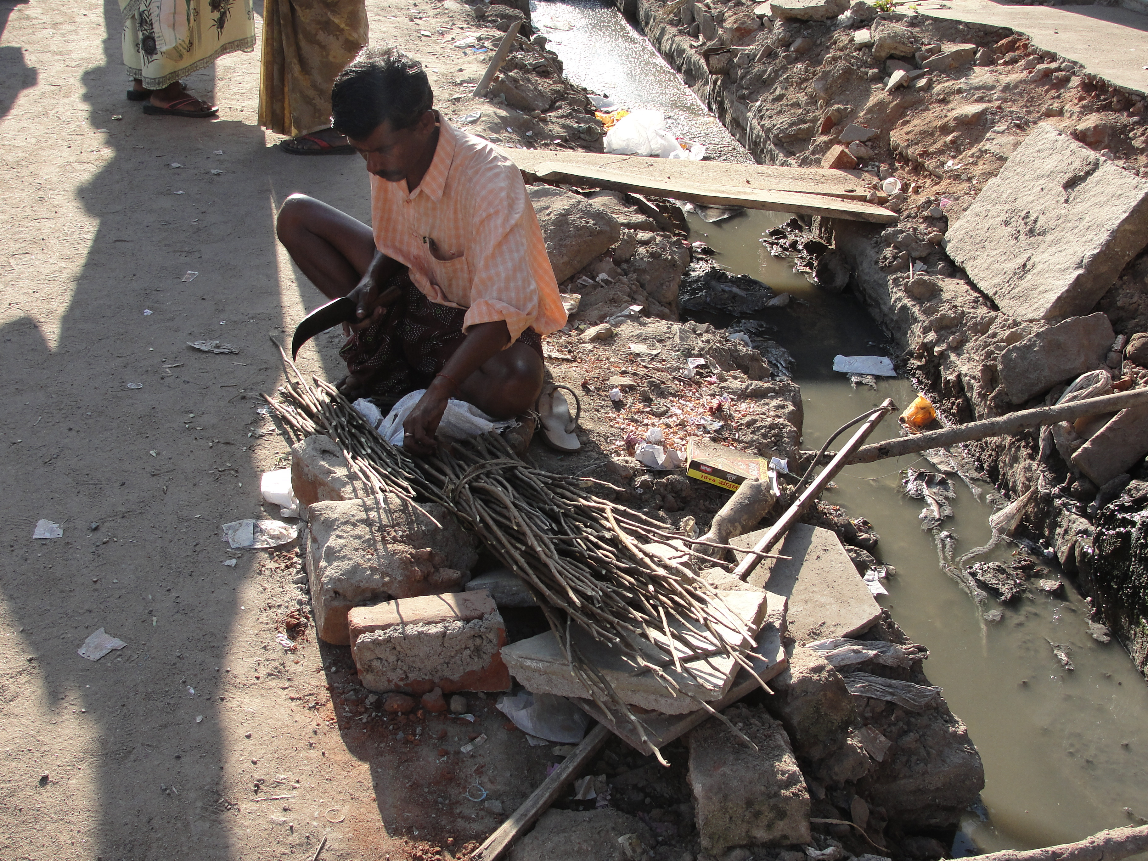 A depiction of selling Neem sticks Unknown